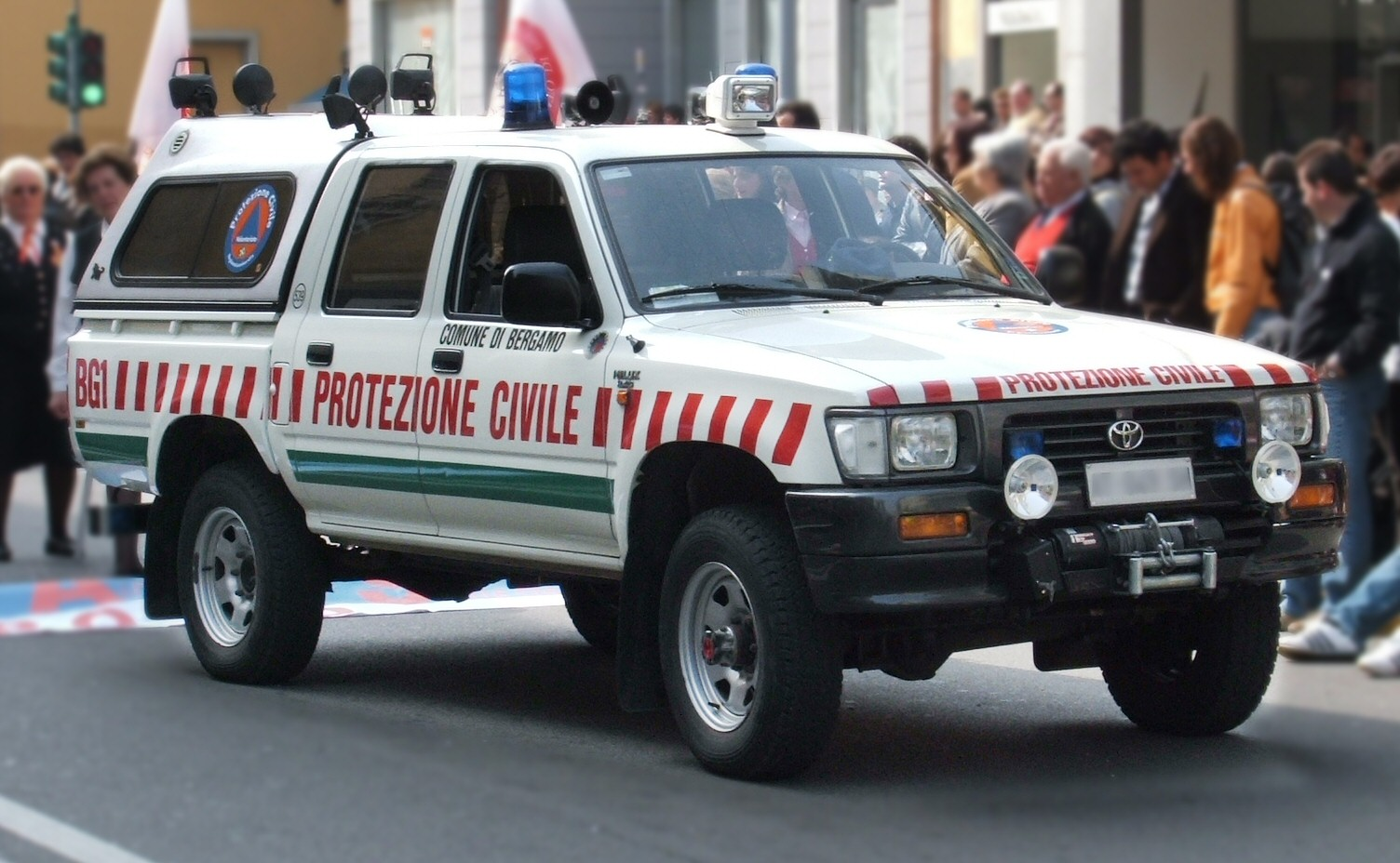 Vehicle of Bergamo civil defense, Italy